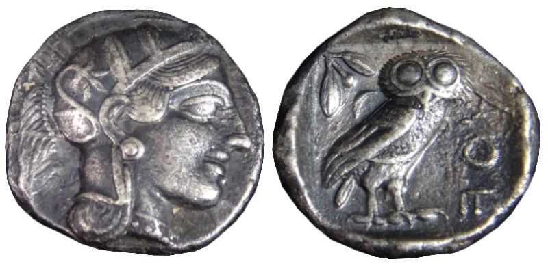 An Athenian tetradrachm from after 499 BC, showing the head of Athena and the owl